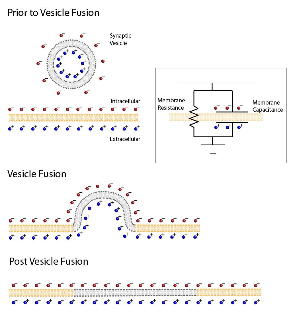 A diagram showing the change in membrane capacitance before (top) and after (middle and bottom) vesicle fusion. Notice how vesicle fusion increases the number of ions that can be stored near the membrane. (Inset) A electrical circuit diagram representing the cell membrane showing the membrane resistance (ion channel)in parallel to the membrane capacitance (RC circuit).